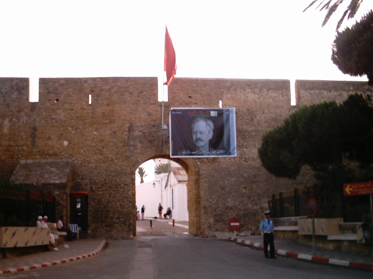 Portuguese fortress in Arzila, Morocco.